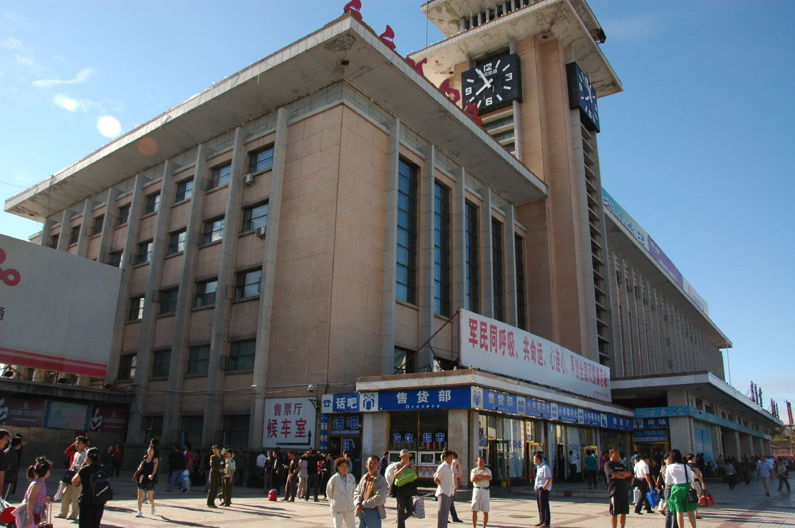 Qiqihar Station 齊齊哈爾火車站/齐齐哈尔站